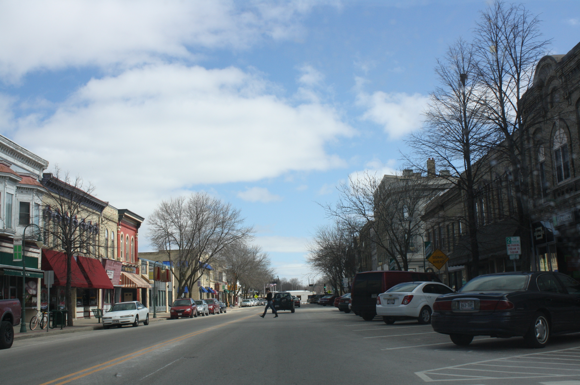 Looking east in downtown Whitewater, Wisconsin.